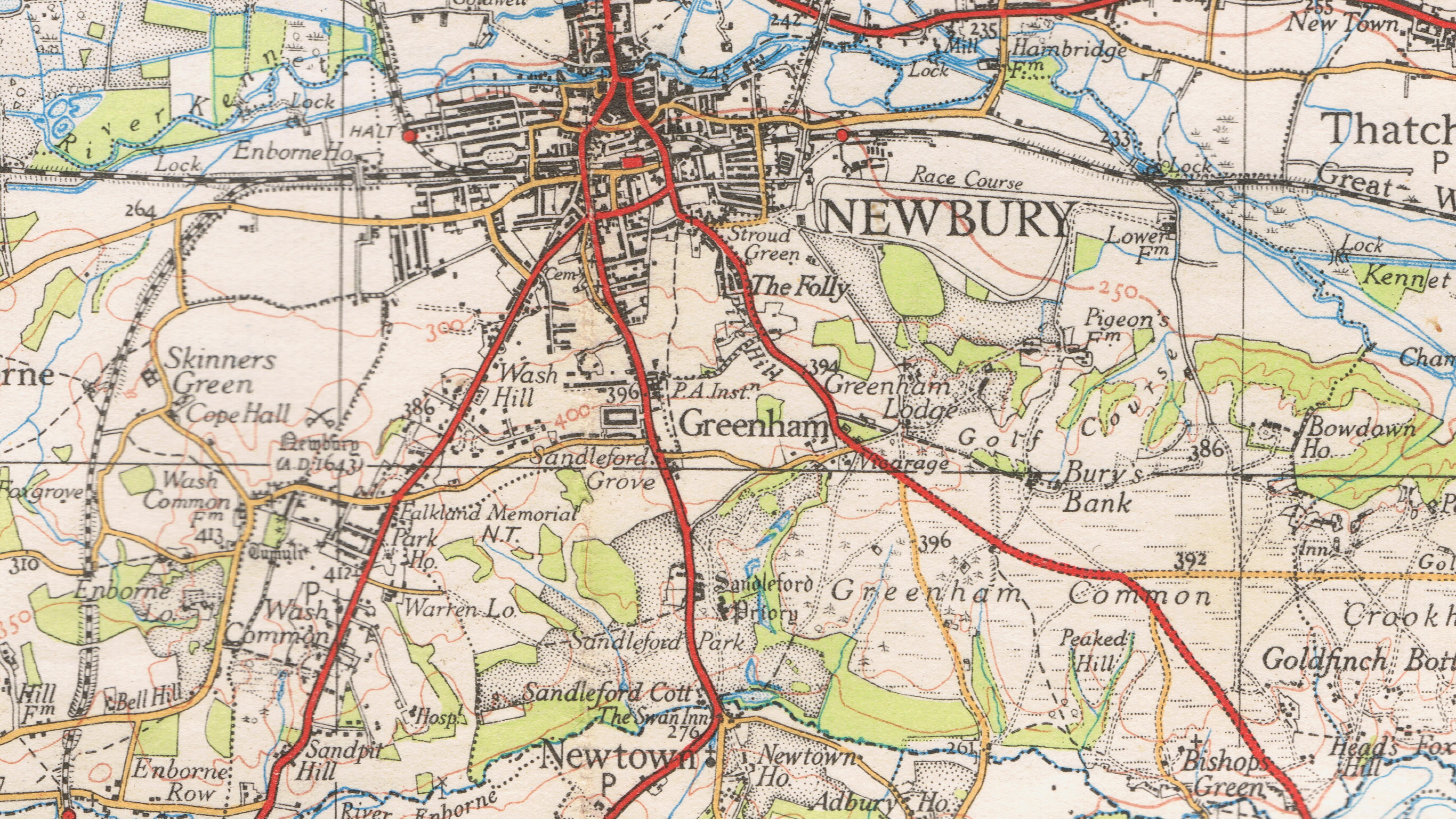 UK Ordnance Survey map, detail of Sandleford, from sheet 113, published Southampton, 1939. Other information this map is out of copyright